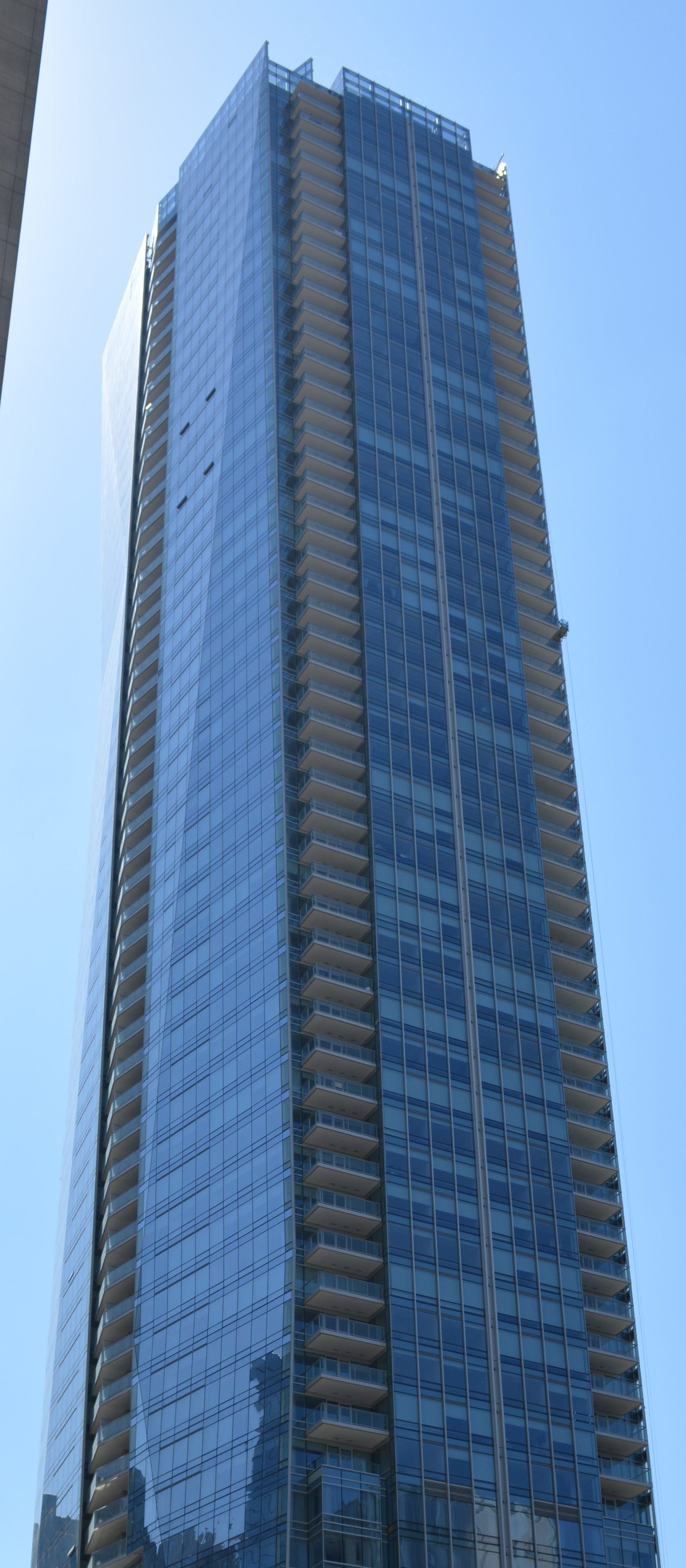 Shangri-la